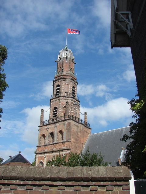 Sint-Nicolaaschurch (IJsselstein)